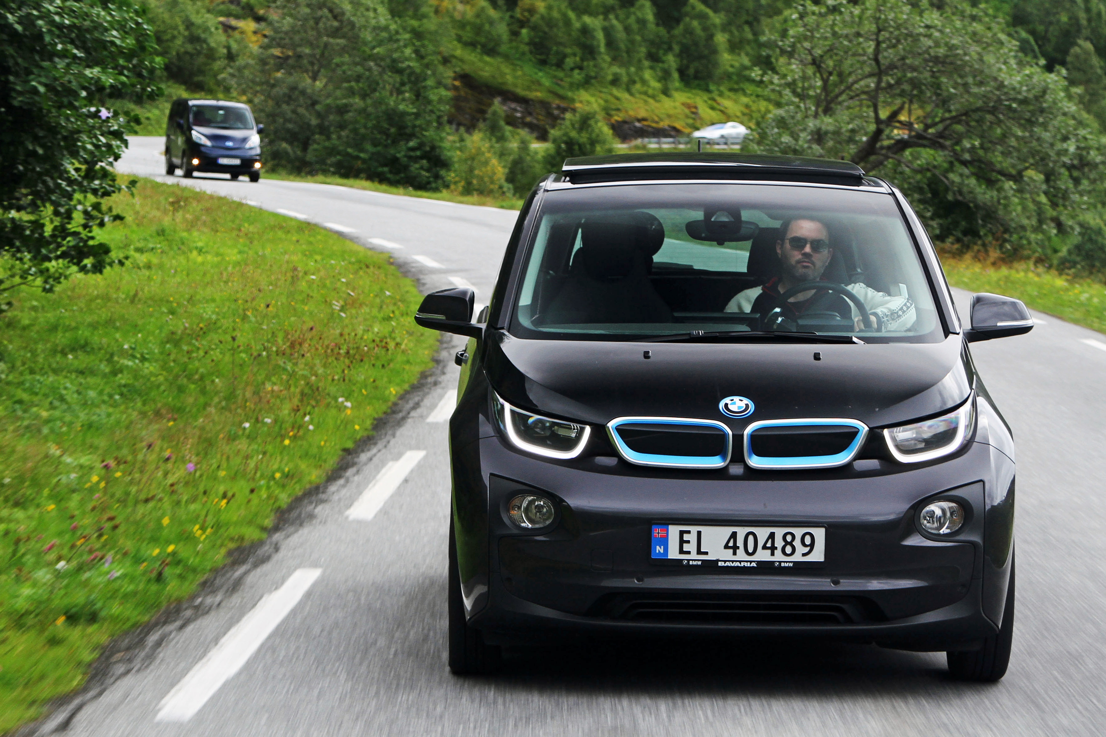 BMW i3 participating in the EV Festival in Geiranger, Norway